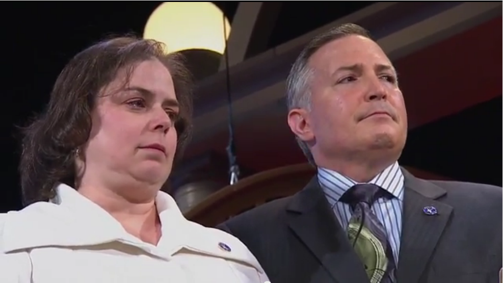 Picture from the Parents of Sam Berns at the Peabody Award.